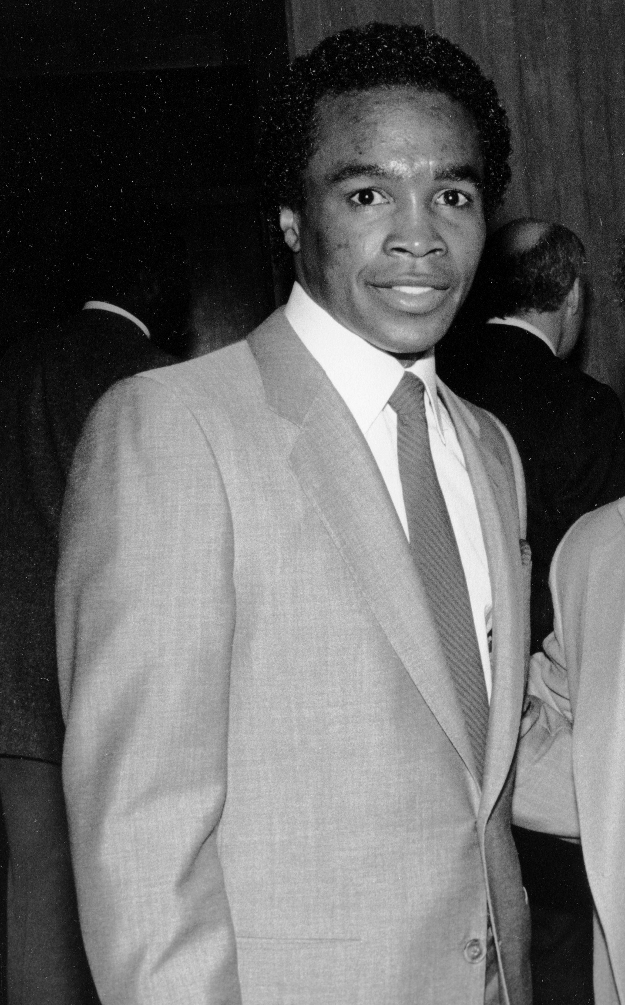 Title: Sugar Ray Leonard and unidentified man Creator: Mayor's Office - City Photographer Date: 1984 Source: Mayor Raymond L. Flynn records, Collection #0246.001 File name: RF_0539 Rights: Copyright City of Boston Citation: Mayor Raymond L. Flynn records, Collection #0246.001, City of Boston Archives, Boston